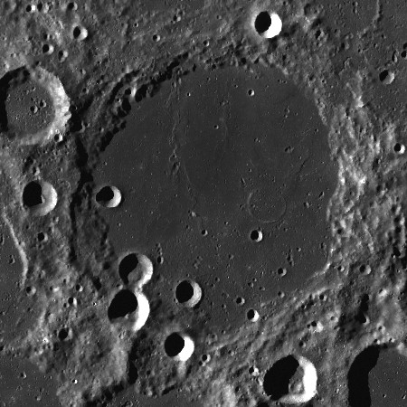 Lyot lunar crater - LROC image. Note the ghost crater at right sector of Lyot floor .